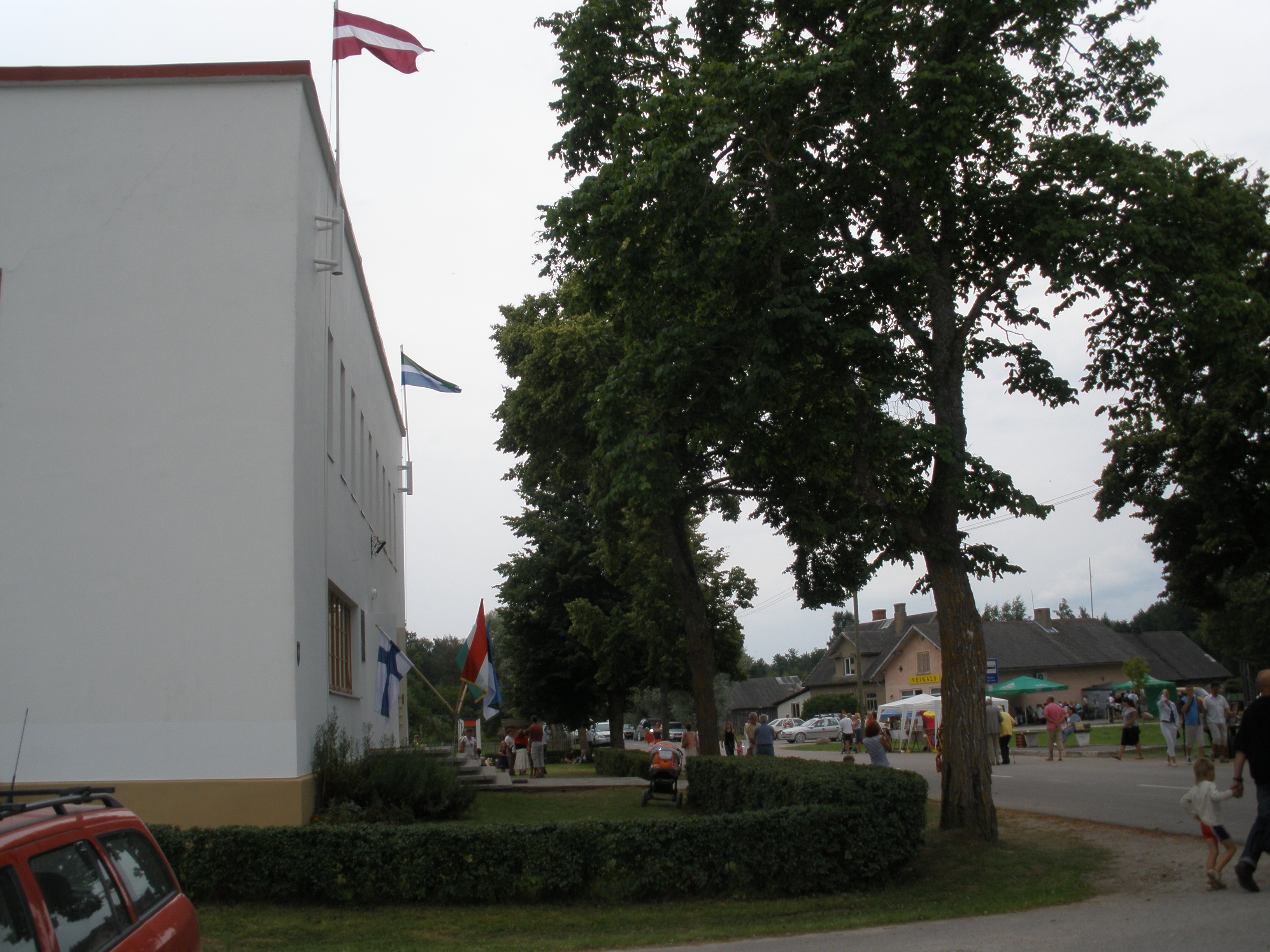 Livonian People's House in Mazirbe during the annual meeting, flying the Latvian and Livonian flags